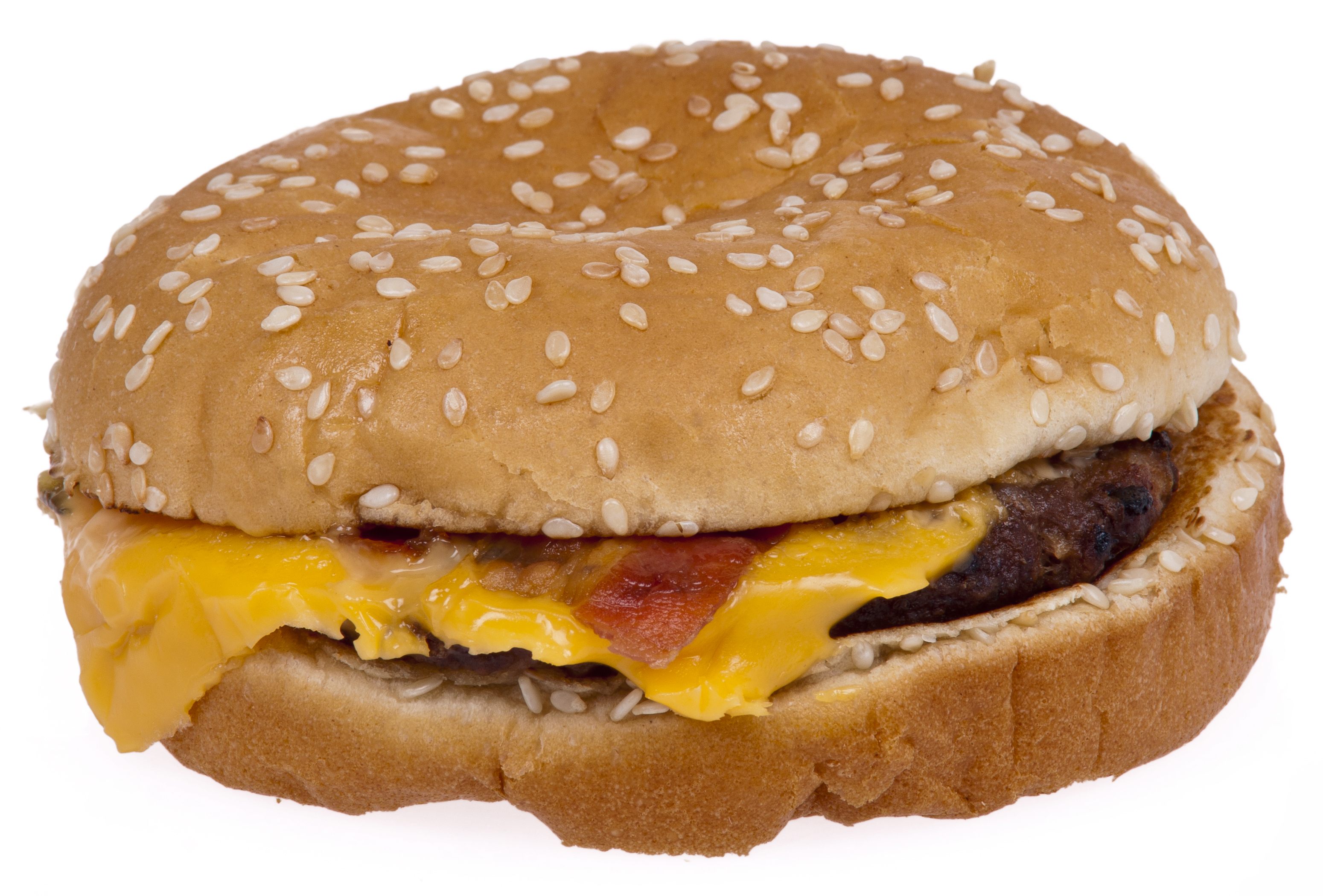 A Burger King bacon cheeseburger.